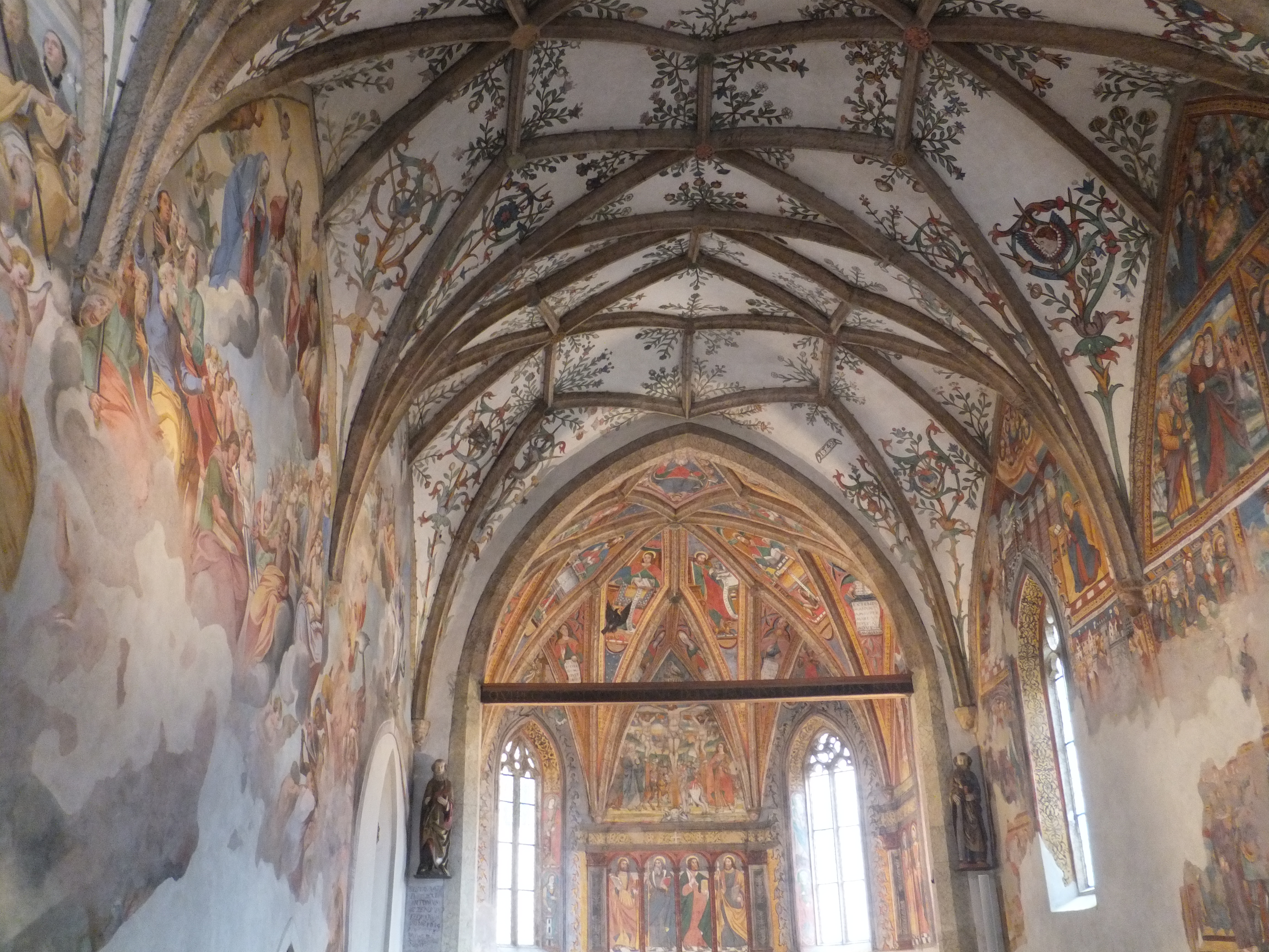 Cembra - Saint Peter church - Interior